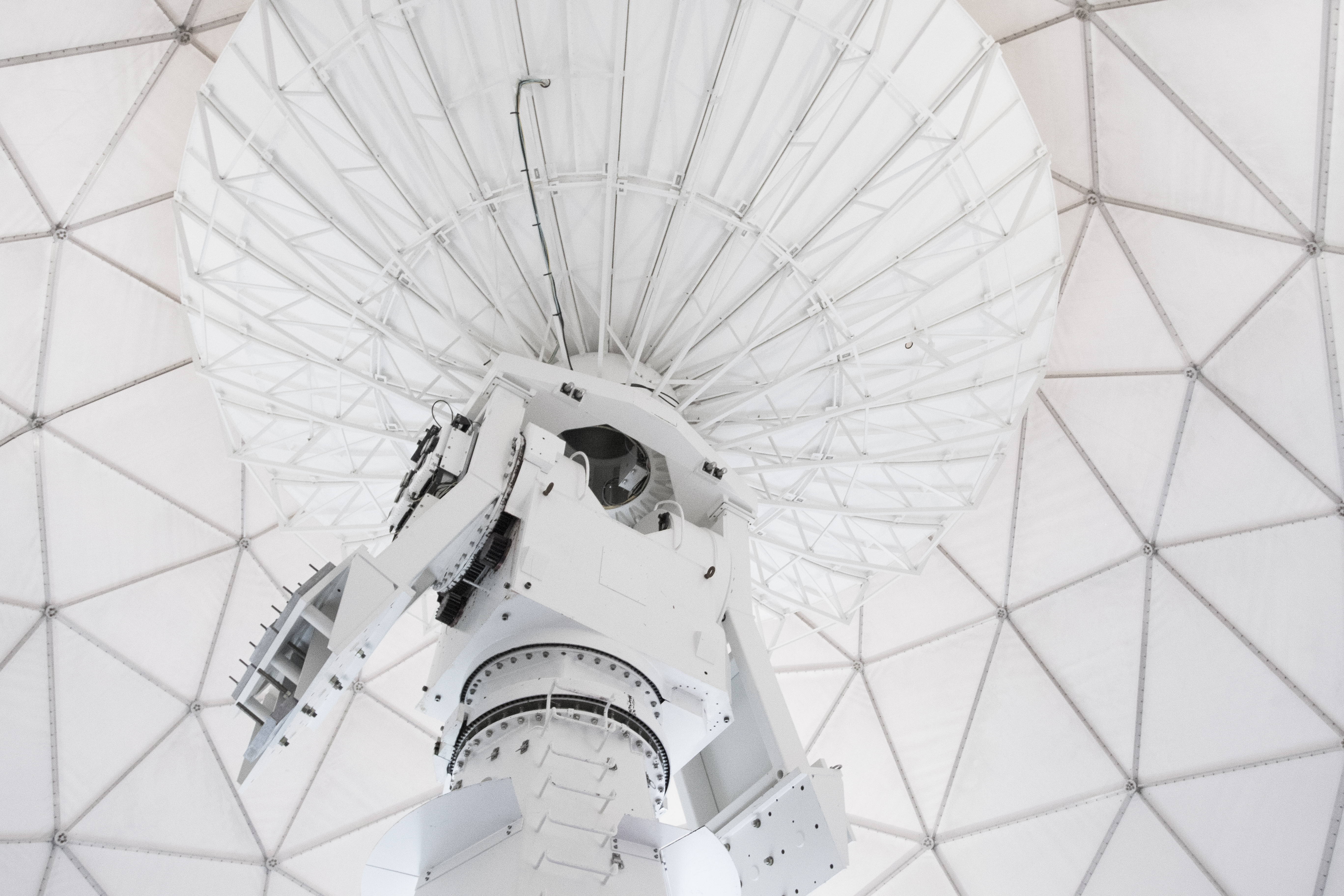 Internal structure of a dome at Svalsat